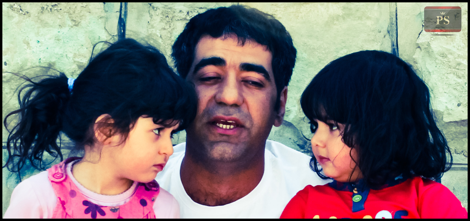 daughter envies to strange girl.